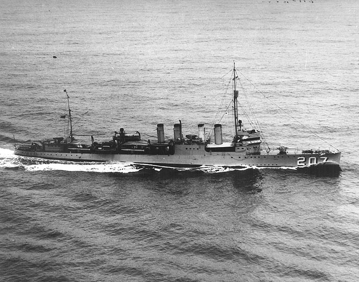 The U.S. Navy destroyer USS Southard (DD-207) underway on 20 April 1932.